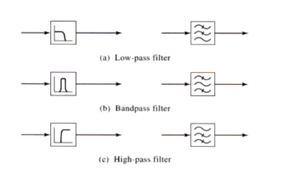 Fig. 1. 2. Simbolet e filtrave